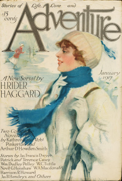 Cover of Adventure, vol. 13 no. 3 (January 1917).